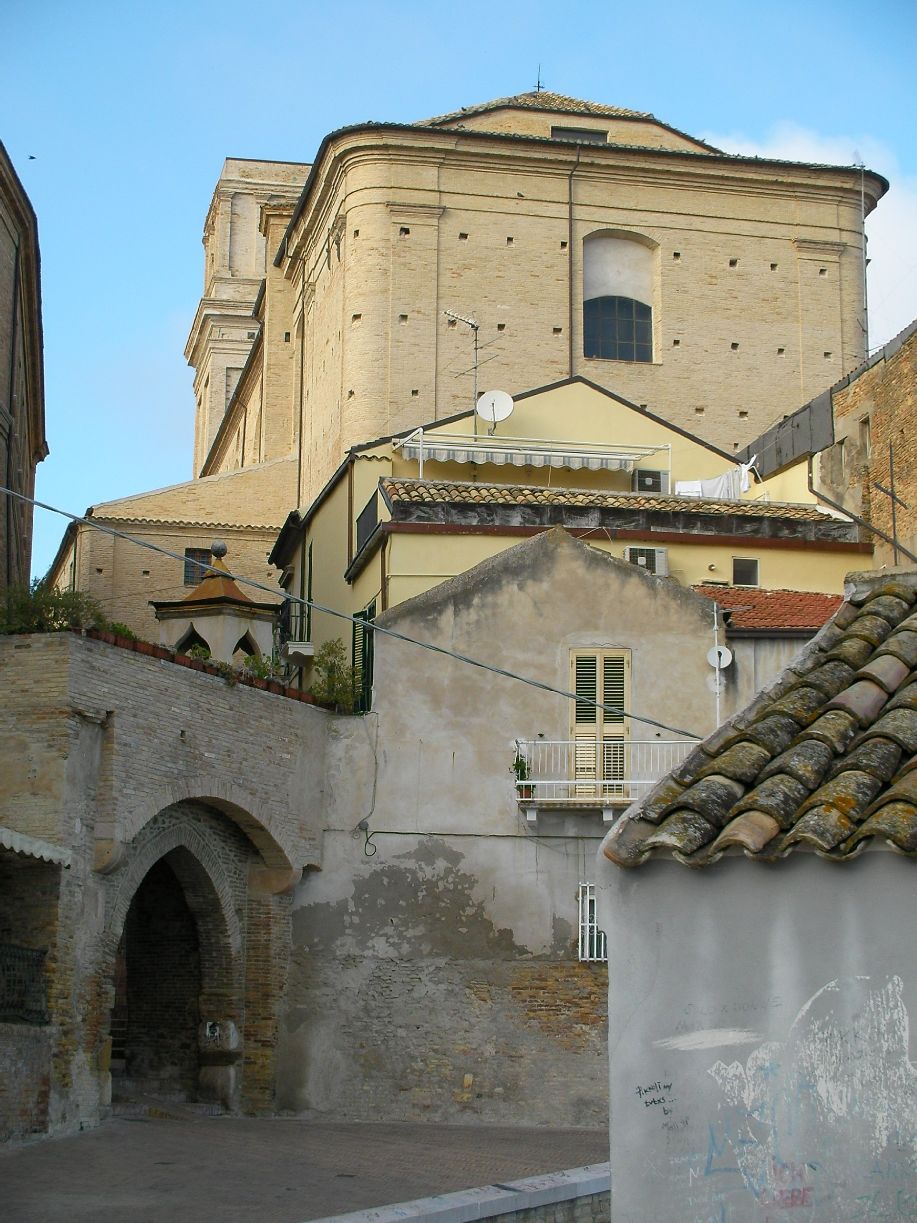 The church of Saint Mary Major, Vasto, province of Chieti, Abruzzo, Italy